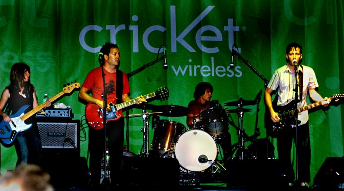 Fastball at Waterloo Park in Austin Texas, August 6, 2006. Photo by Steve Hopson. See more photos at: Fastball Photos, and Steve Hopson's website — .